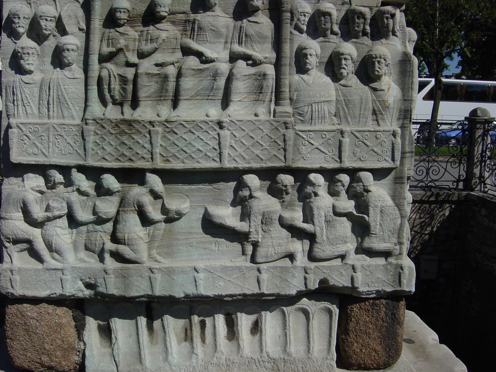 North West face of the Theodosius I obelisk in Istanbul/Constantinople. 'other_versions=